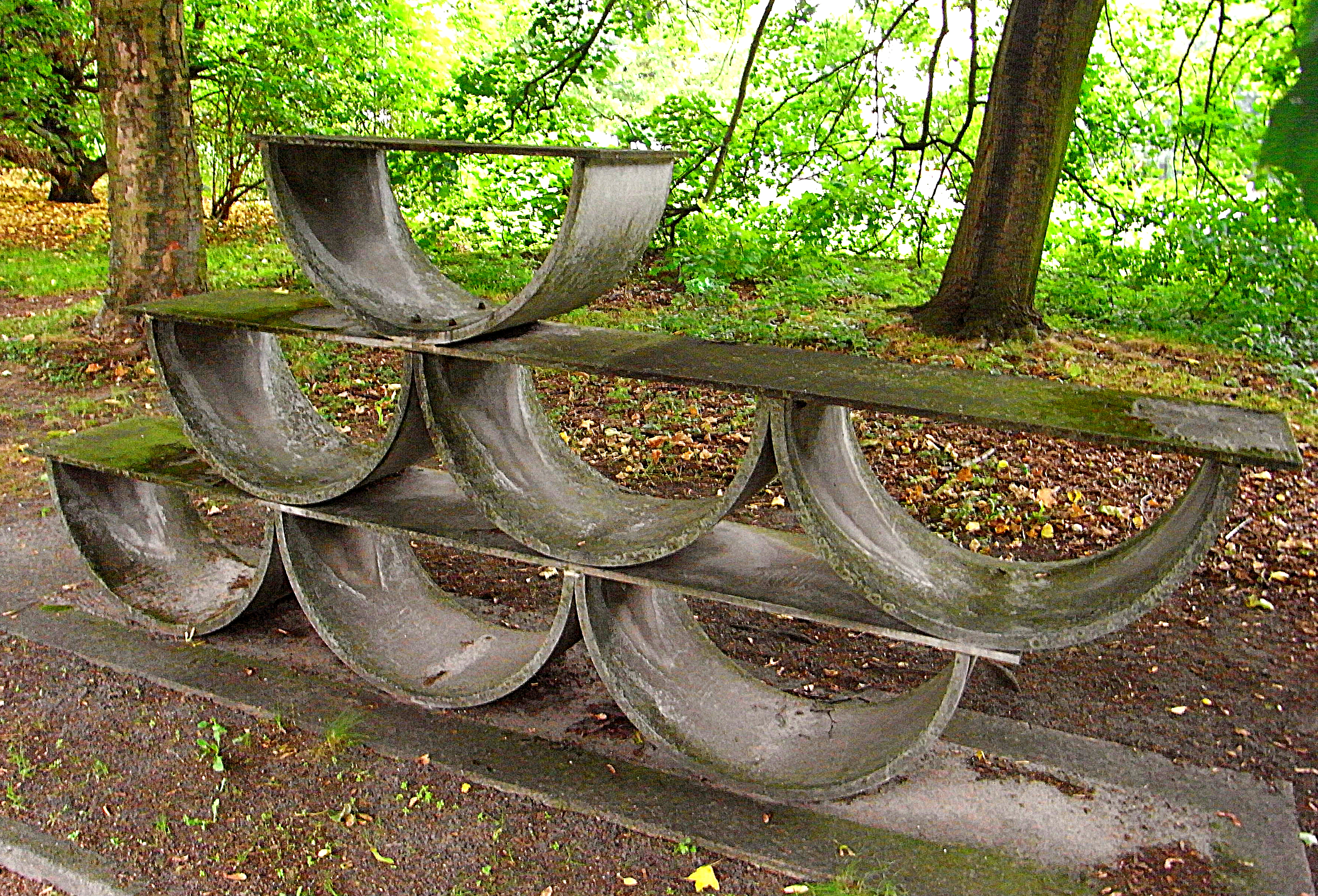 Object from eternit, bisected pipes and plates, probably by Alexander Gonda, probably after 1967, D-10555 Berlin-Hansaviertel, in front of the northern side of Altonaer Straße 1 ("Eternit House")